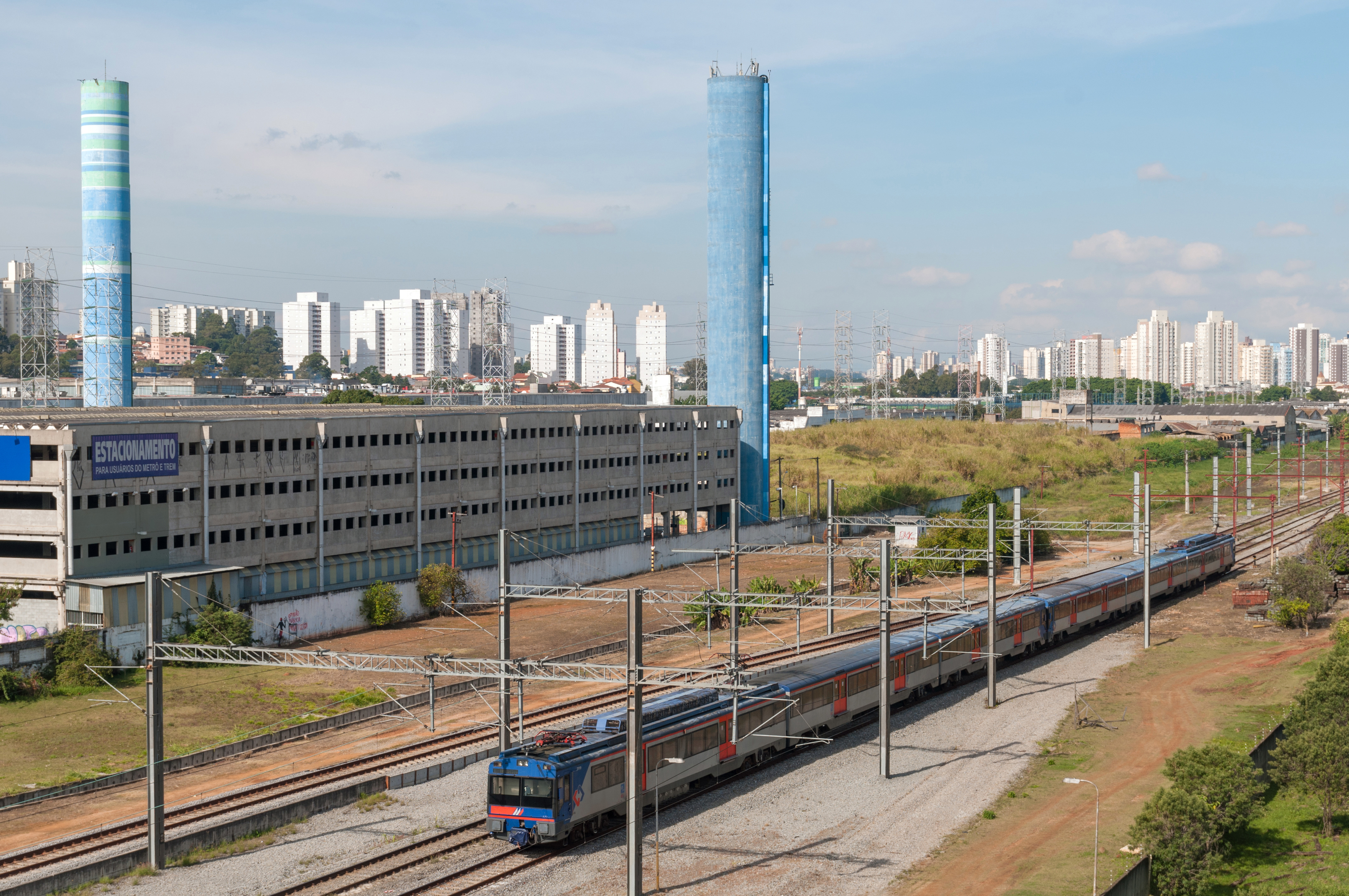 Tamanduateí train station of Series 2100 Red CPTM, São Paulo, Brazil